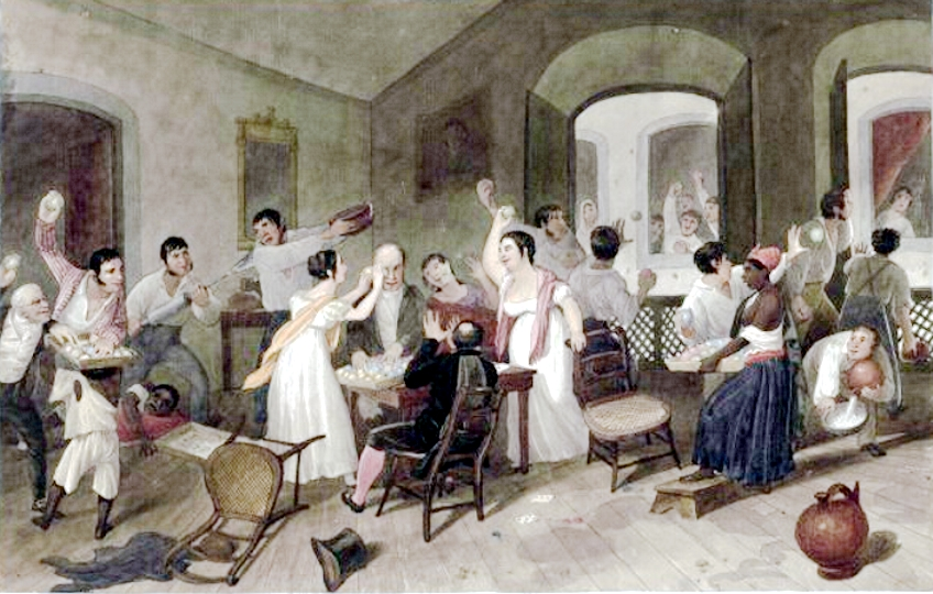 Games during the carnival at Rio de Janeiro. Watercolour; 21.6 x 34 cm.